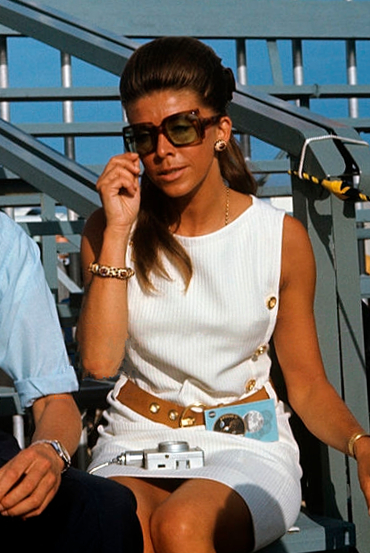 Swiss water skier Marina Ricolfi Doria. Cape Canaveral, 16th July 1969